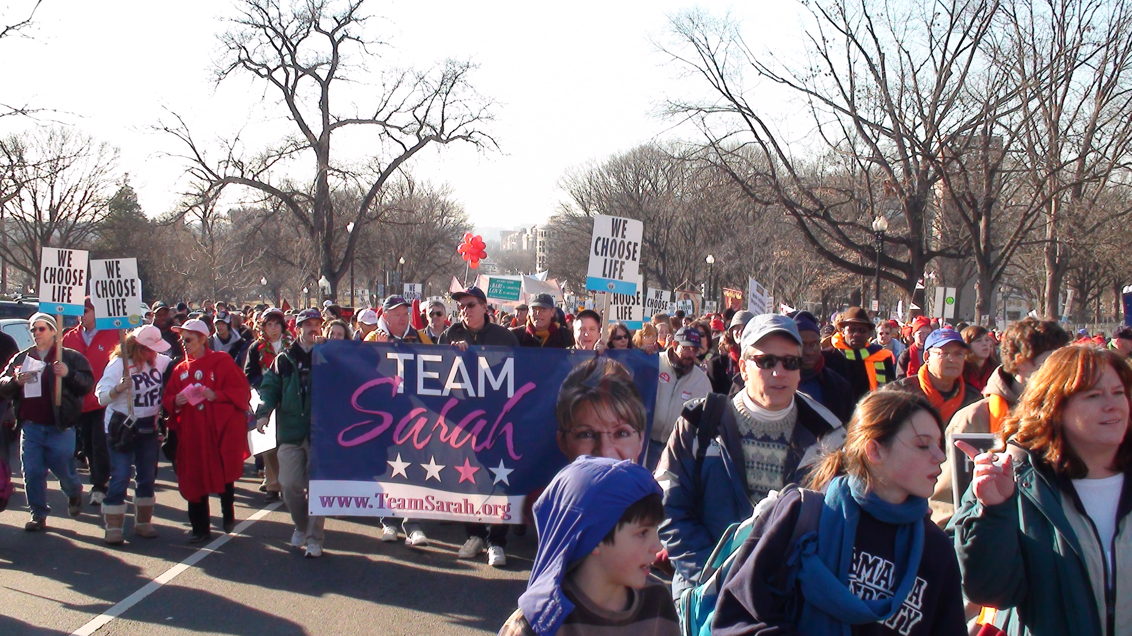 Team Sarah 2009 March for Life Washington DC